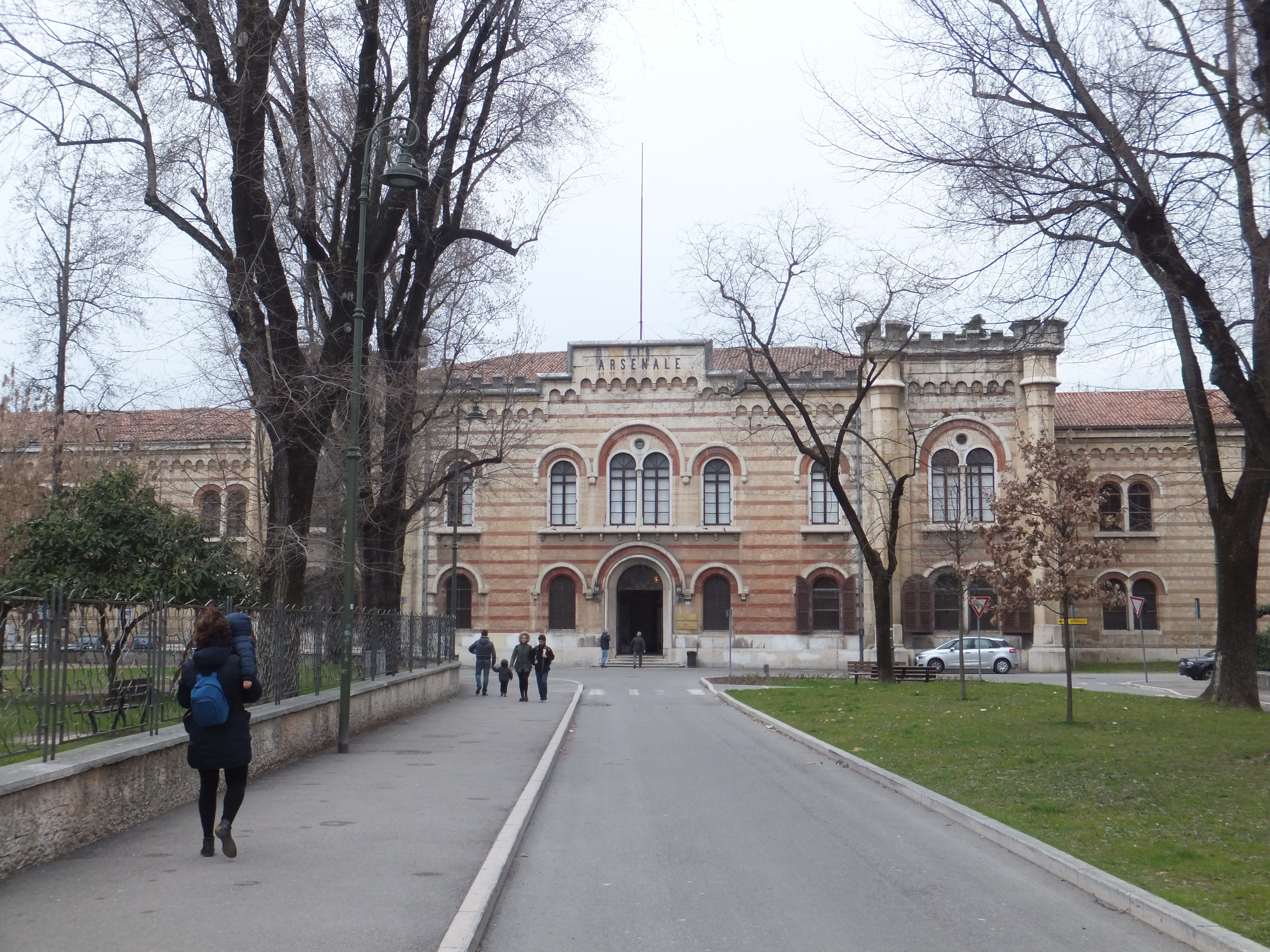 Arsenal of Verona